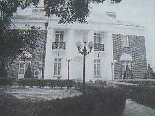 Consulate of the United States in Amoy